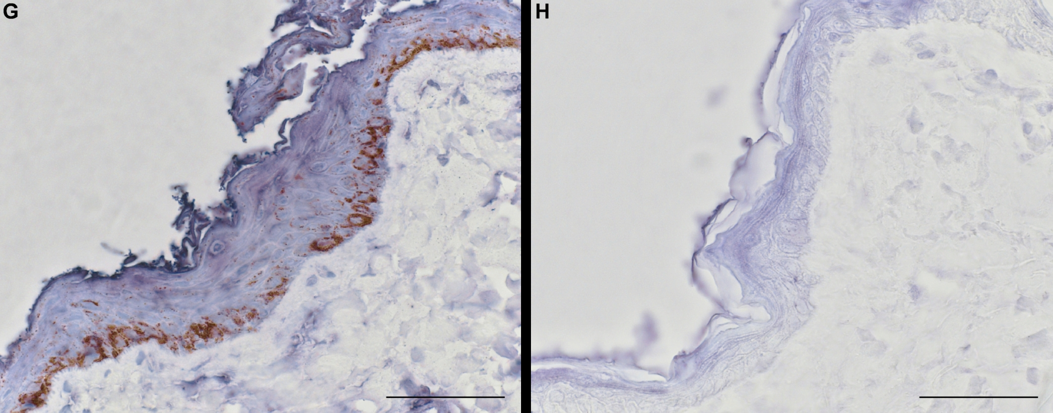 (G) Immunohistochemistry using a polyclonal KIT antibody on a skin biopsy from a solid-colored horse. Blue staining indicates KIT expression throughout the epidermis. Melanin produced by melanocytes is visible as brown granules. (H) Immunohistochemistry on a skin biopsy of a white horse. Note the weak blue staining and the complete absence of melanocytes and melanin. The bars correspond to 50 μm.